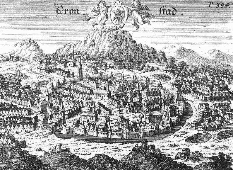 XVIIth century fictional engraving of Braşov